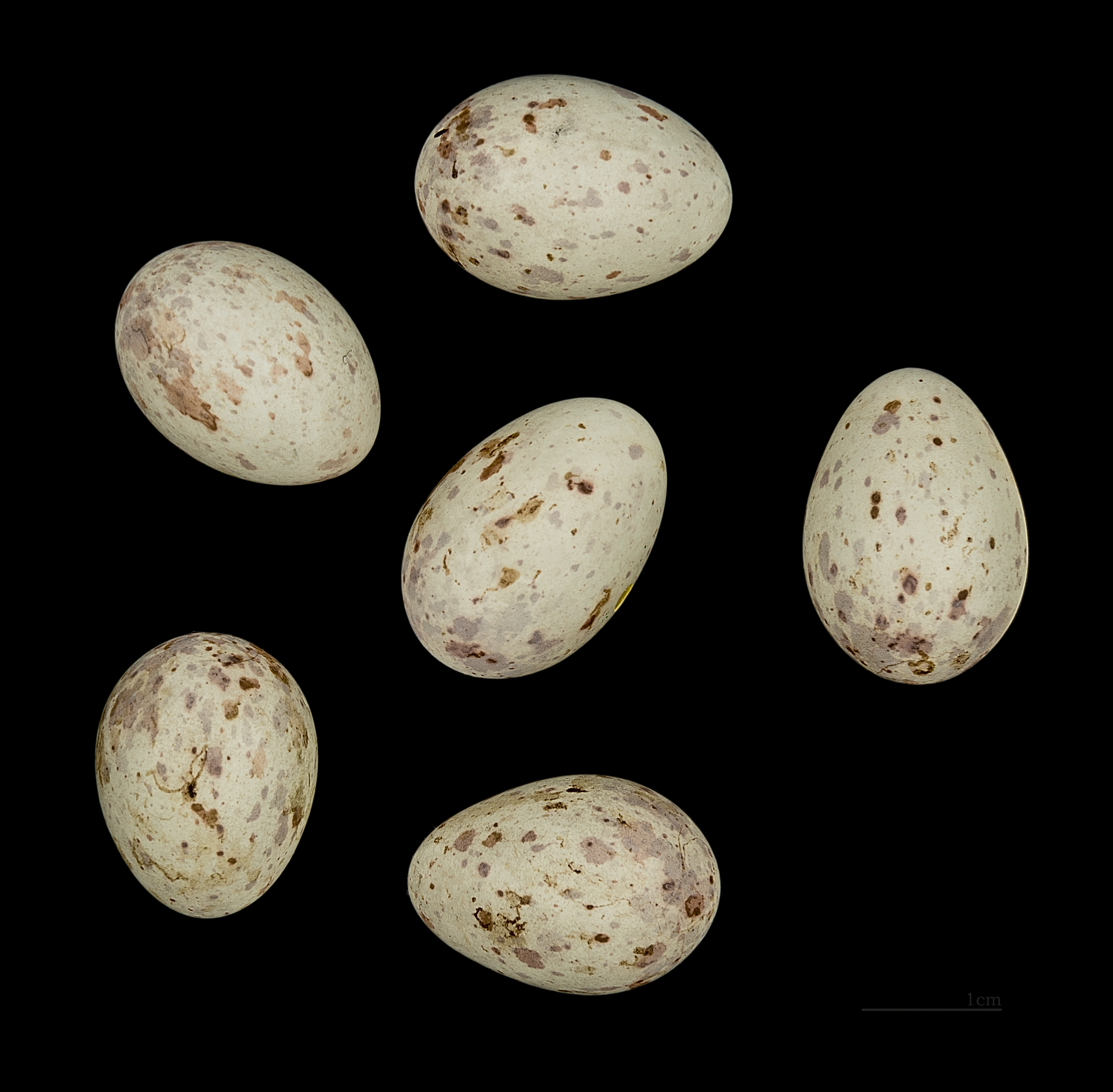 Egg of Snow Bunting. Collection of René de Naurois / Jacques Perrin de Brichambaut.